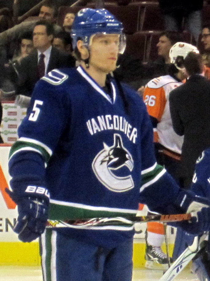 Vancouver Canucks defenceman Christian Ehrhoff during a game against the New York Islanders on March 16, 2010, in Vancouver.